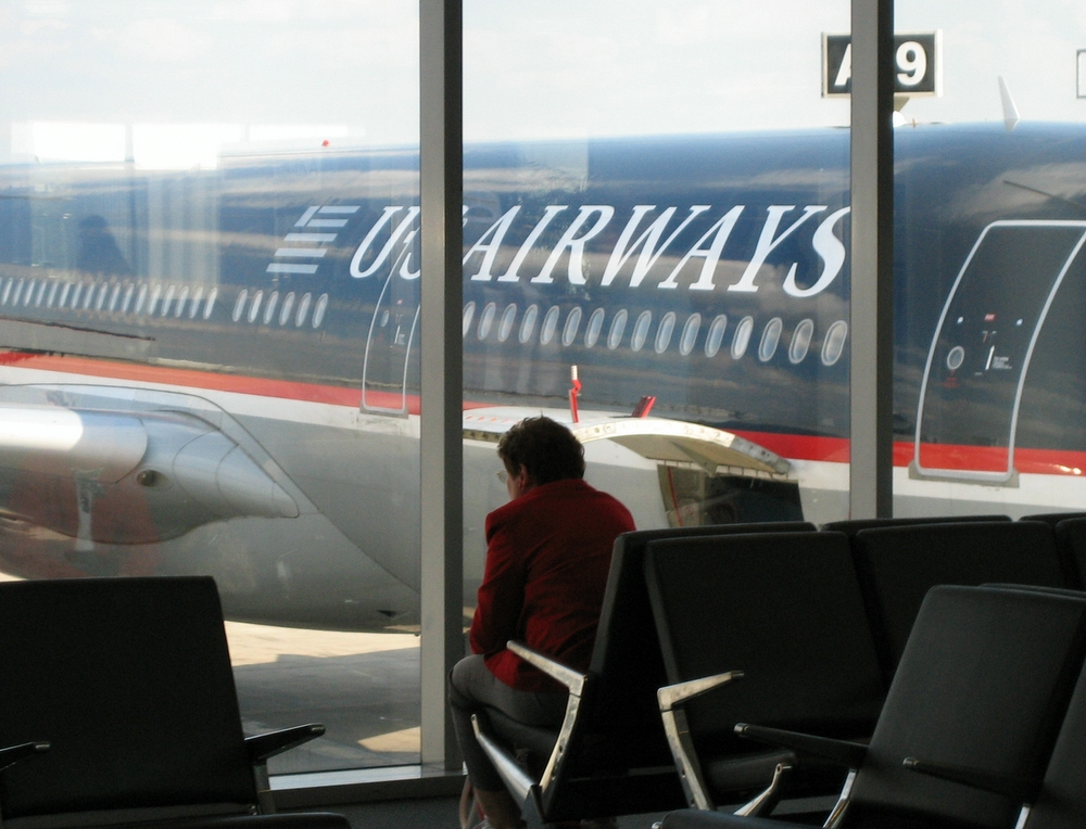 US Airways plane at Philadelphia International Airport